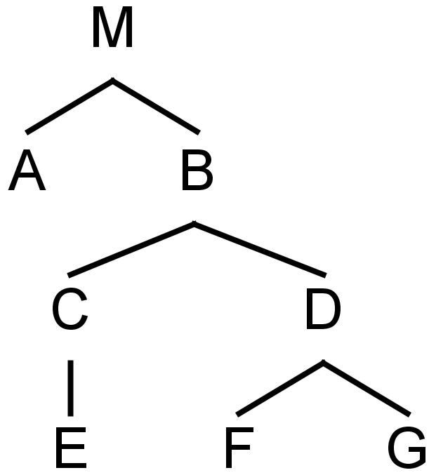 A simple generative grammar tree structure for use in explaining, among other things, C-command.